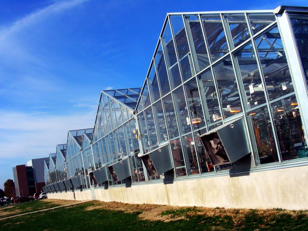 greenhouses @ Purdue